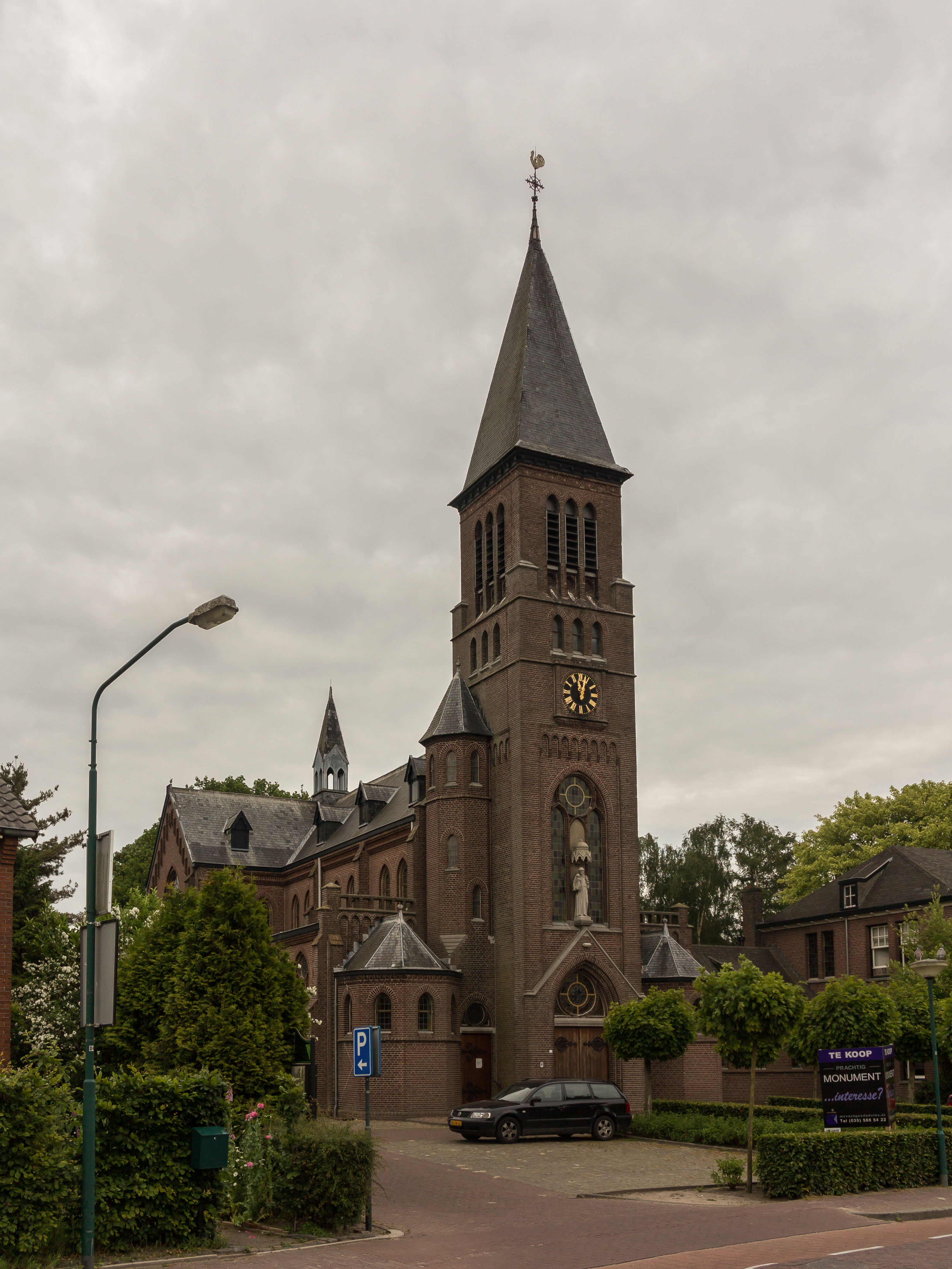 Biest-Houtakker, church: de Sint Antonius van Paduakerk